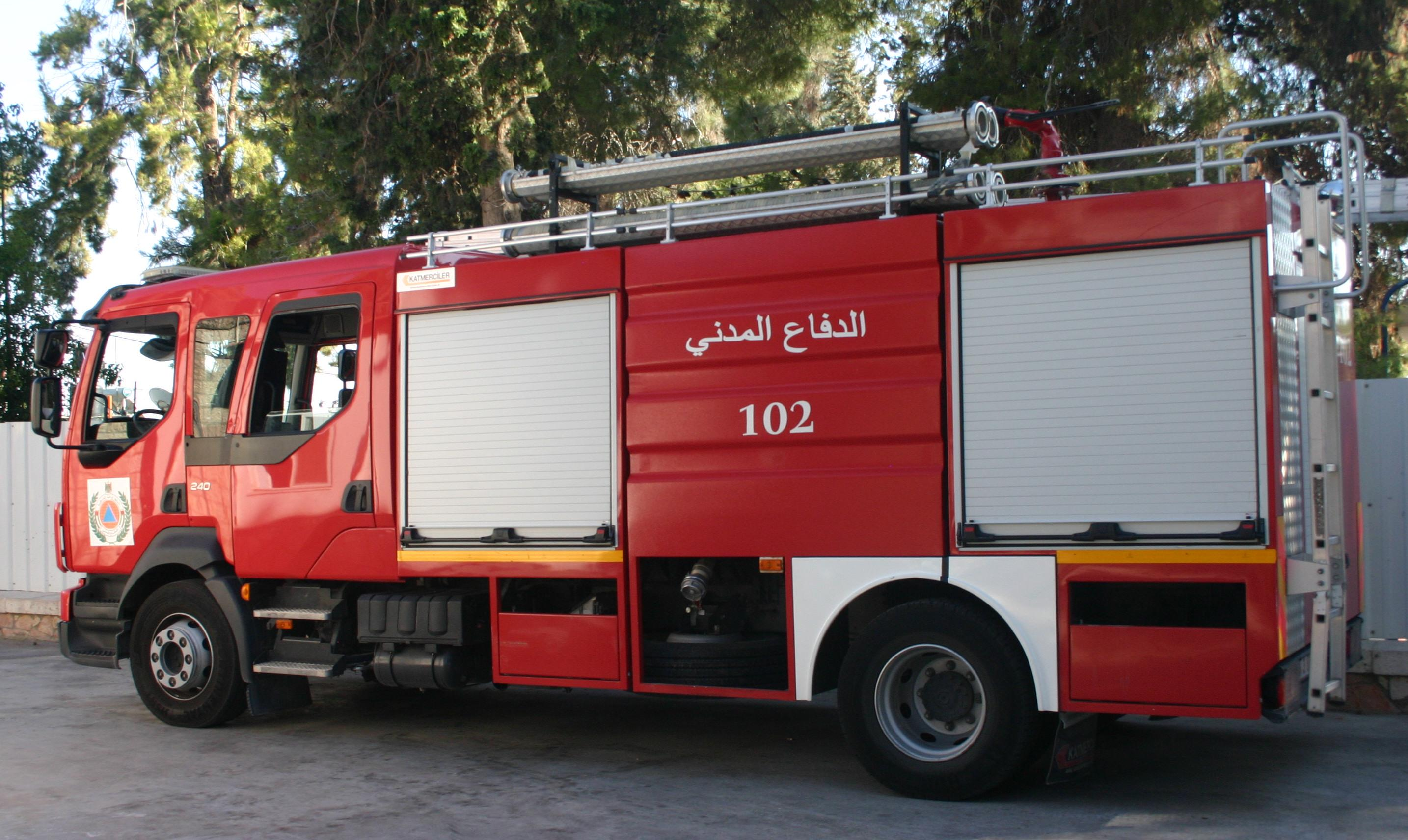 Firetruck Volvo in the fire station in al-Birah